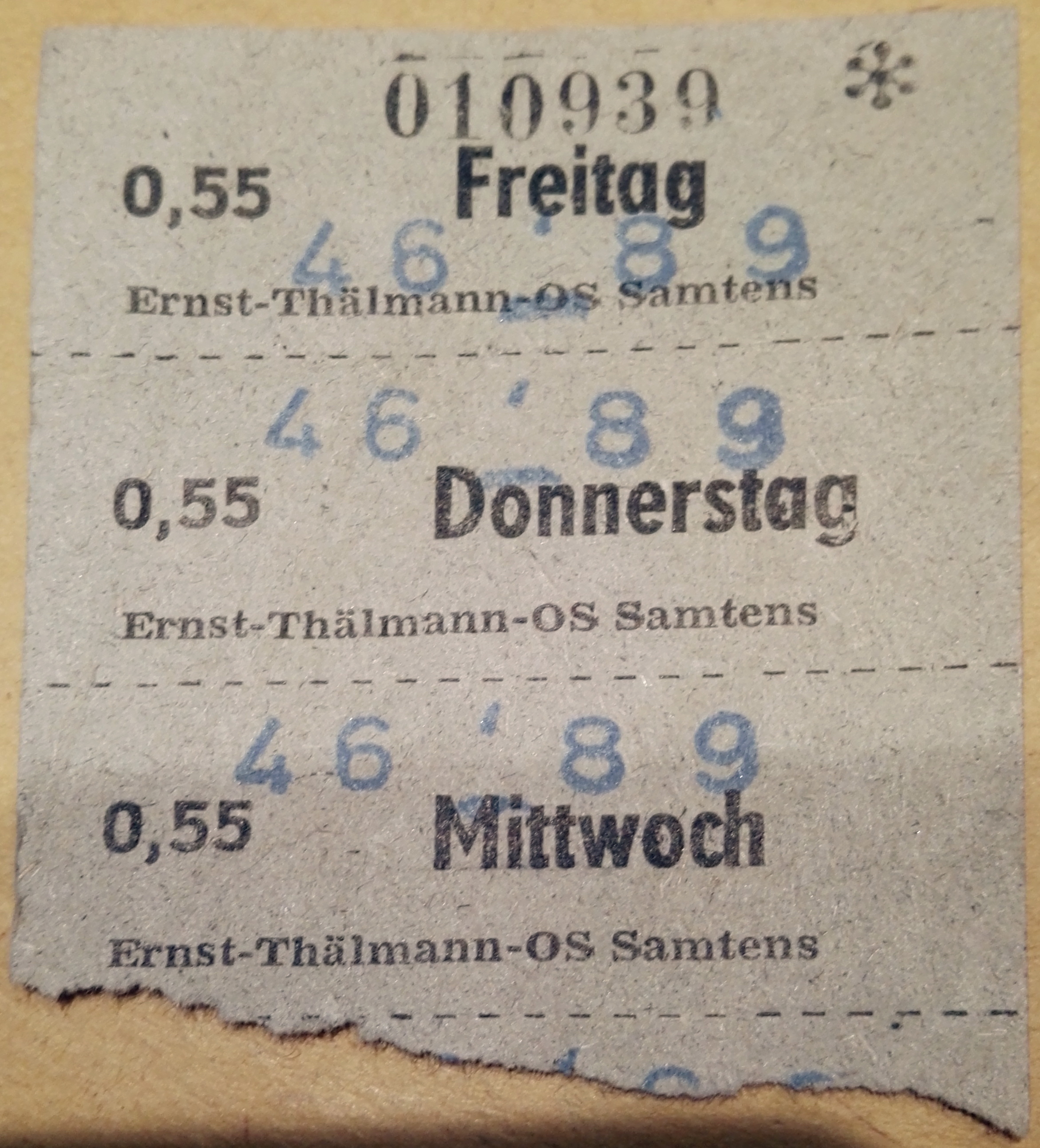 tickets for school meals in GDR, 1989